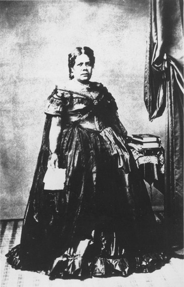 Analea Keohokālole (1816–1869) was a Hawaiian chiefess and matriarch of the Kalākaua Dynasty that ruled Hawaiʻi from 1874 to 1893.